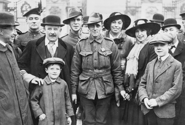 A black and white group photograph of John Leak, an Australian Victoria Cross recipient and some admirers taken after his investiture.